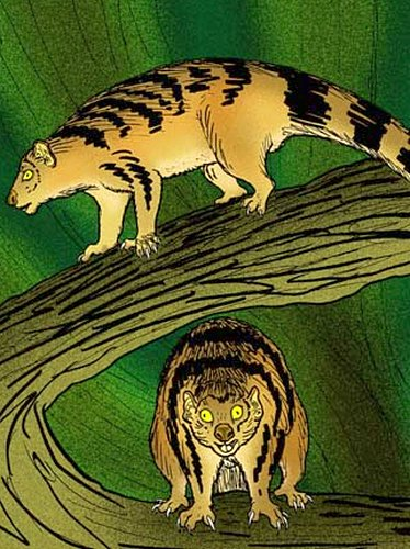 Reconstruction of the miniature marsupial lion, Microleo attenboroughi, from the Early Miocene of the Riversliegh Fauna, Queensland, Australia. - Flipped version of original